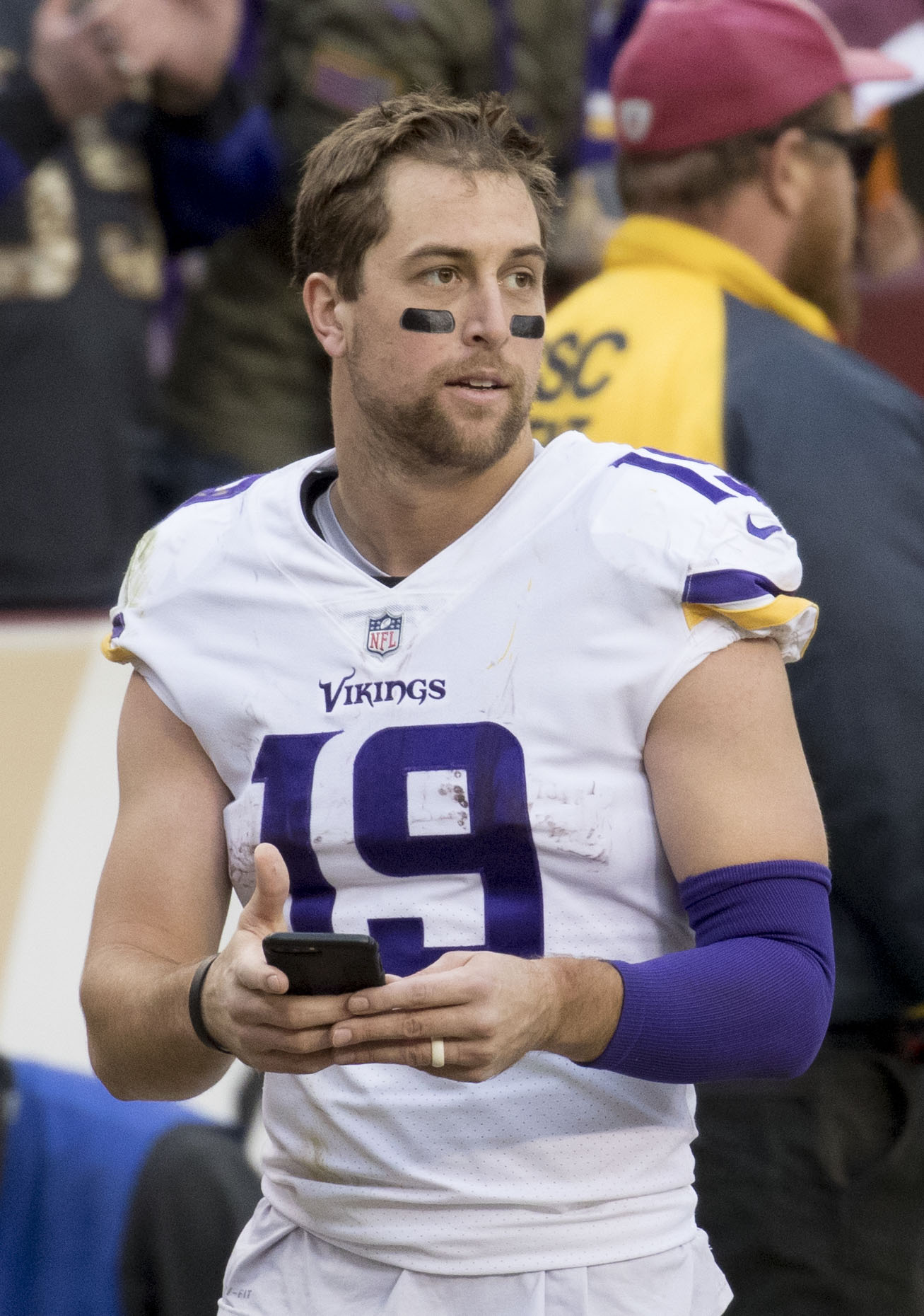 Minnesota Vikings wide receiver, Adam Thielen, in a game against the Washington Redskins on November 12, 2017.